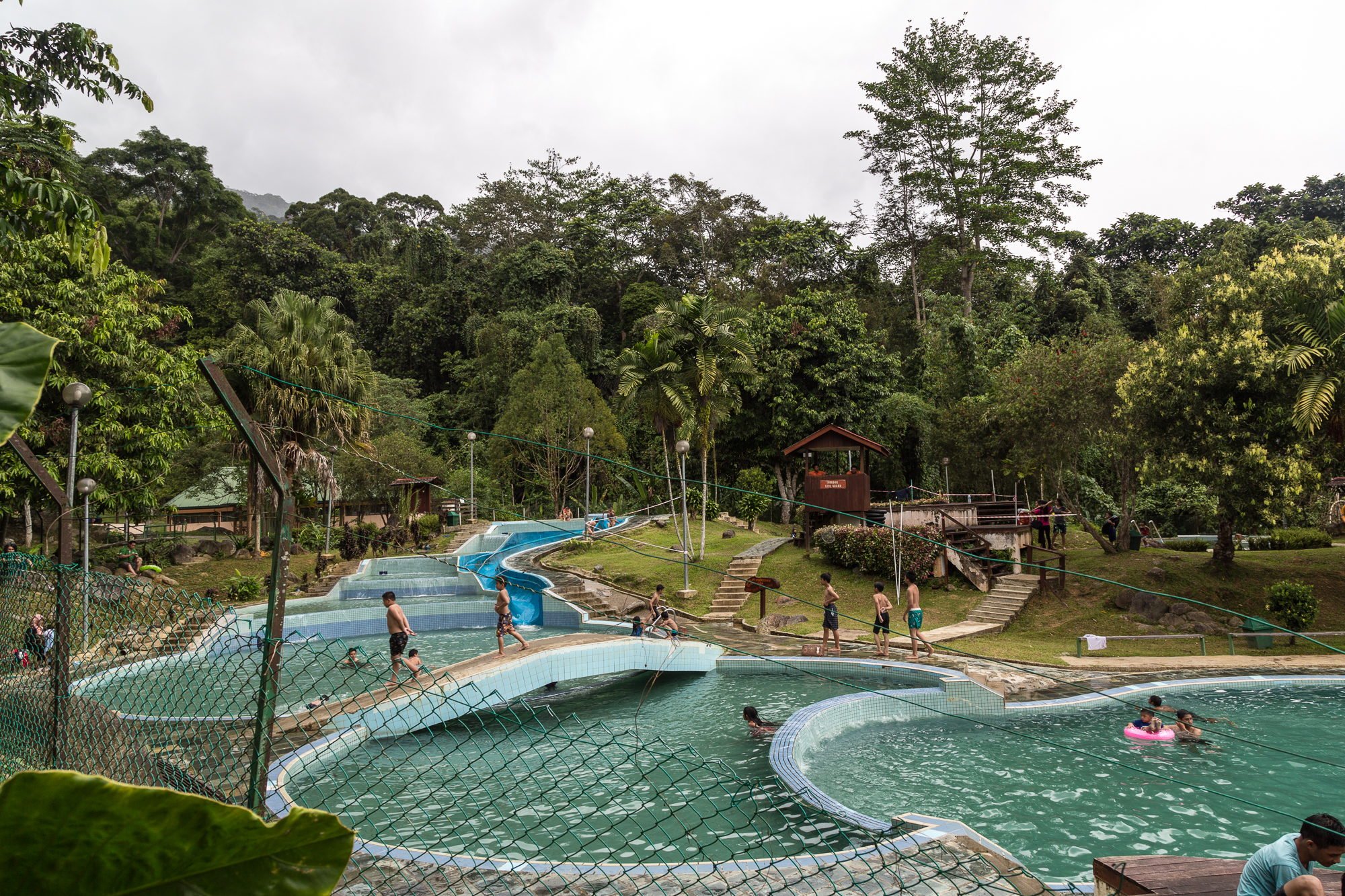 Kg. Poring, Ranau, Sabah: Poring Hot Springs